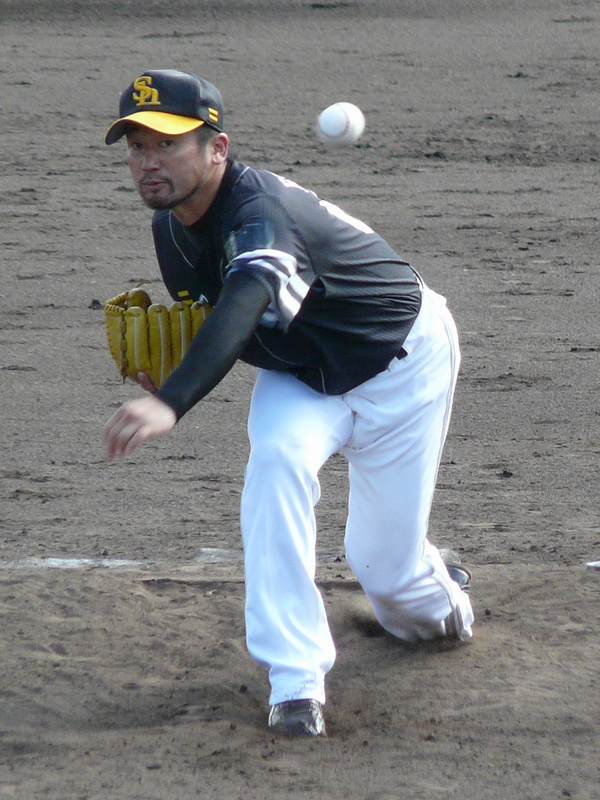 Soichi Fujita, pitcher of the Fukuoka SoftBank Hawks, at Hanshin Naruohama Baseball Ground.